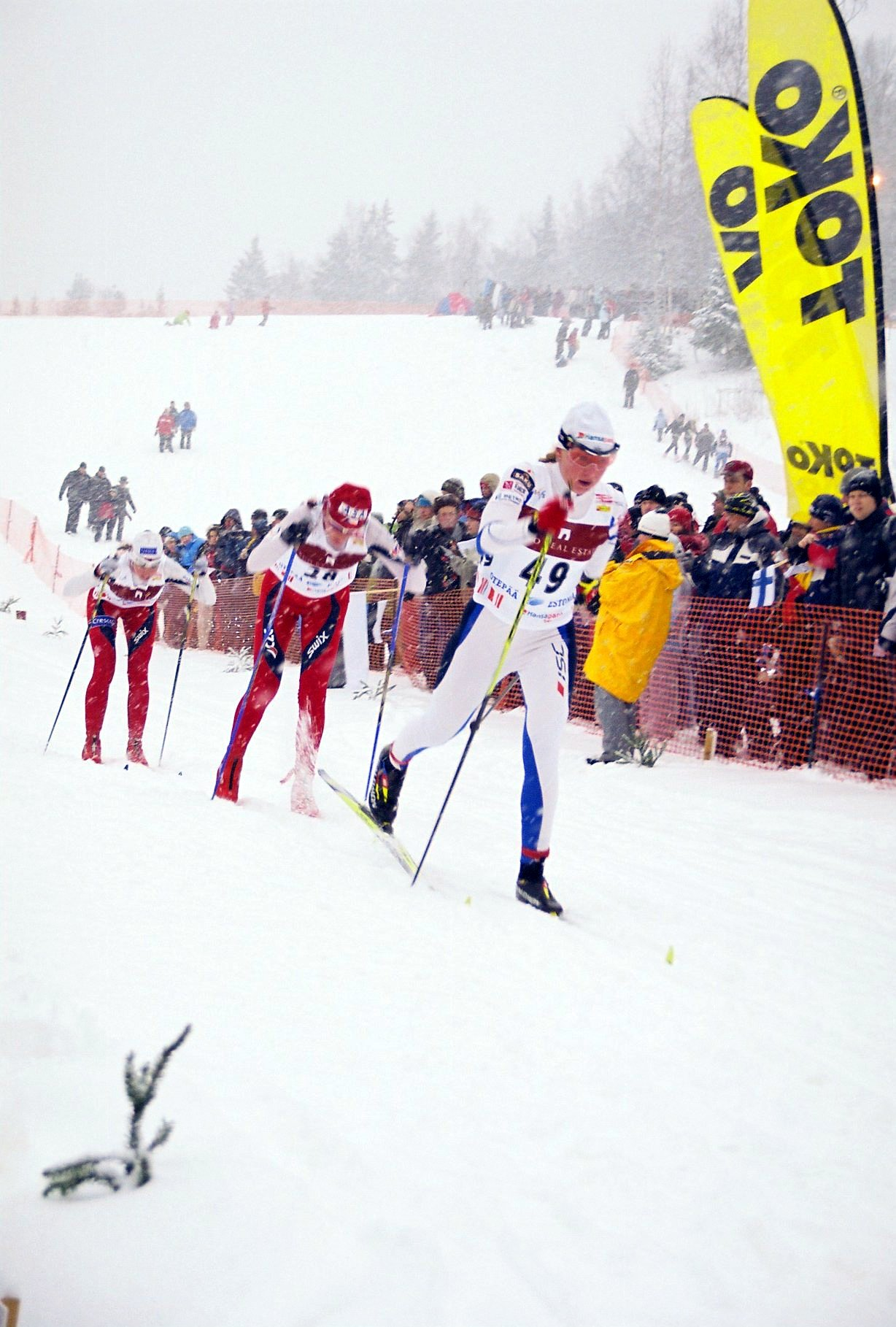 FIS World Cup Cross Country - January 2007 in Otepää, Estonia Women's Classical 10 km Kristina Šmigun